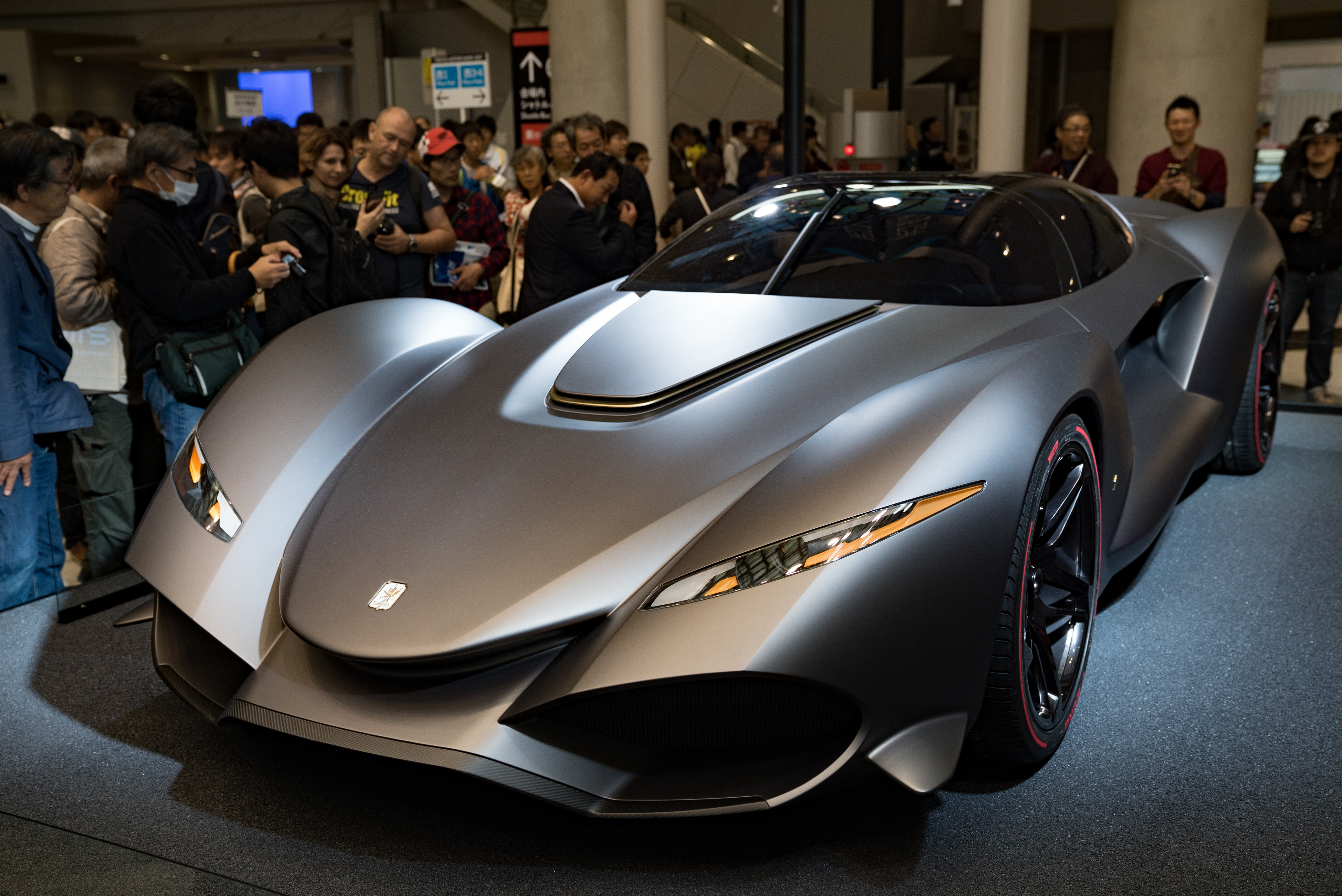 The 45th Tokyo Motor Show 2017-11.jpg